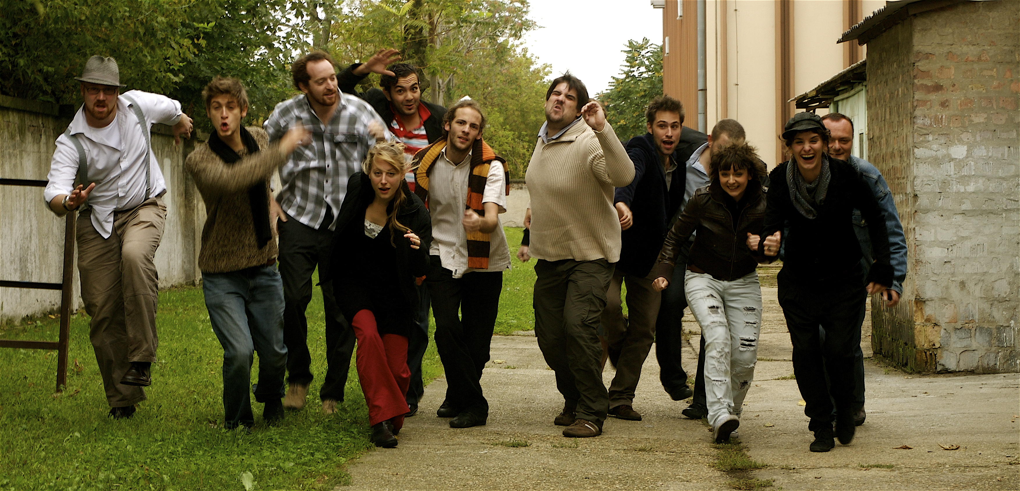 Picture of a famoust hungarian alternative theater company, the KOMA. Running to the future.